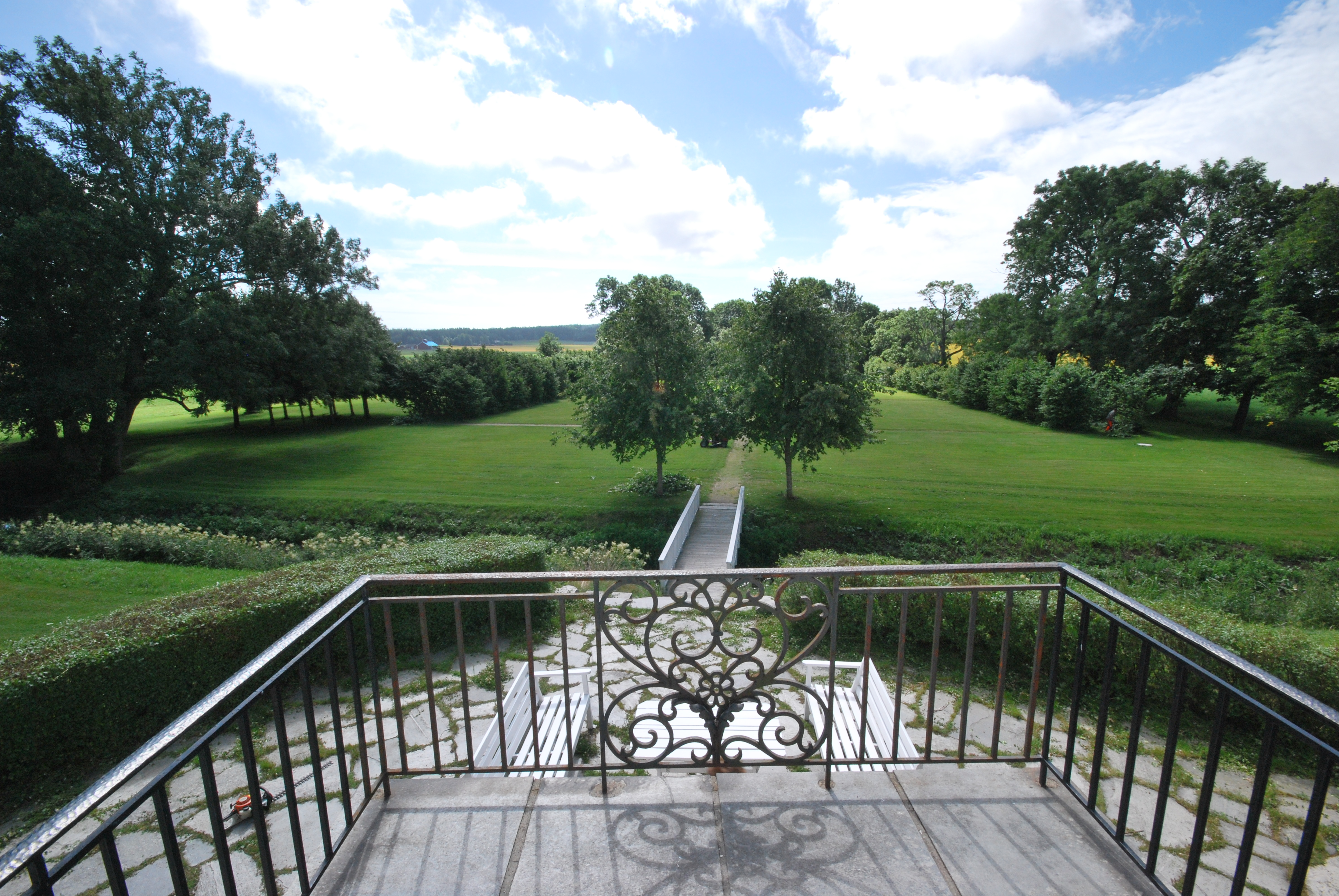 Elingaard manor, Onsøy, garden seen from from stairs. The queens Margrethe of Denmark and Sonja of Norway planted one each of the linden trees seen in the middle in June, 1999.